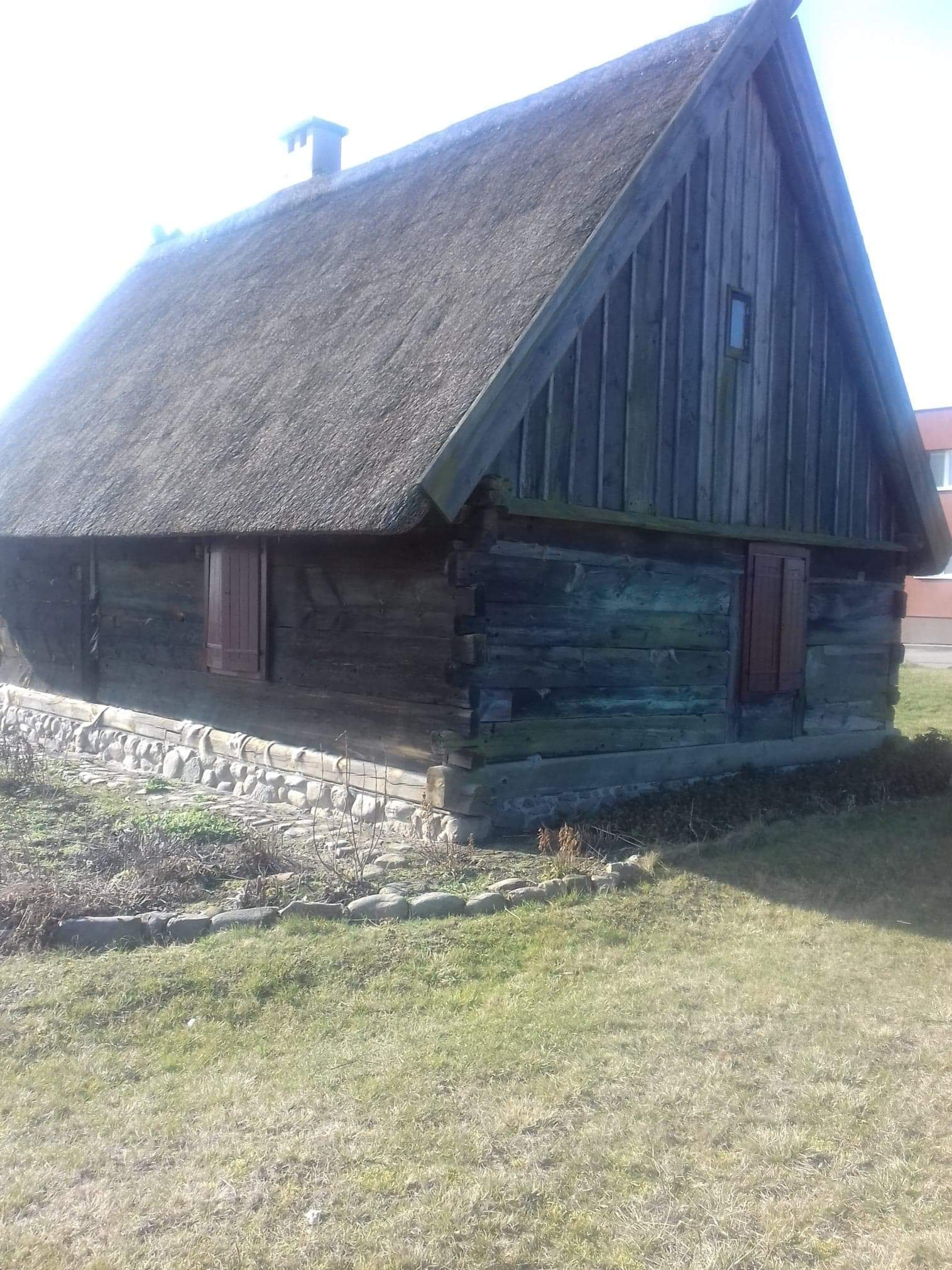 Chata po kosznajdrach zdjęcie zrobione przeze mnie telefonem